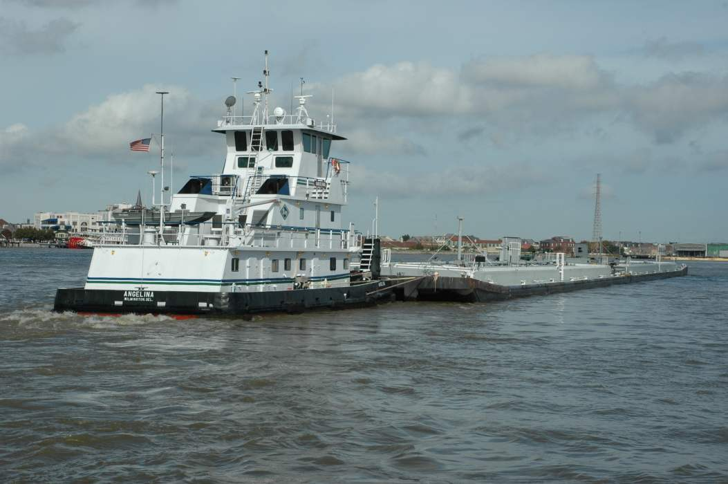 The towboat Angelina pushes a barge on the Mississippi River in New Orleans, Louisiana. Taken on January 3, 2005 by J. Glover (AUTiger).